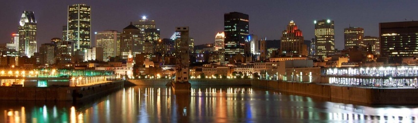 This photo is of a cultural heritage site in Canada, number 2117 in the Canadian Register of Historic Places.